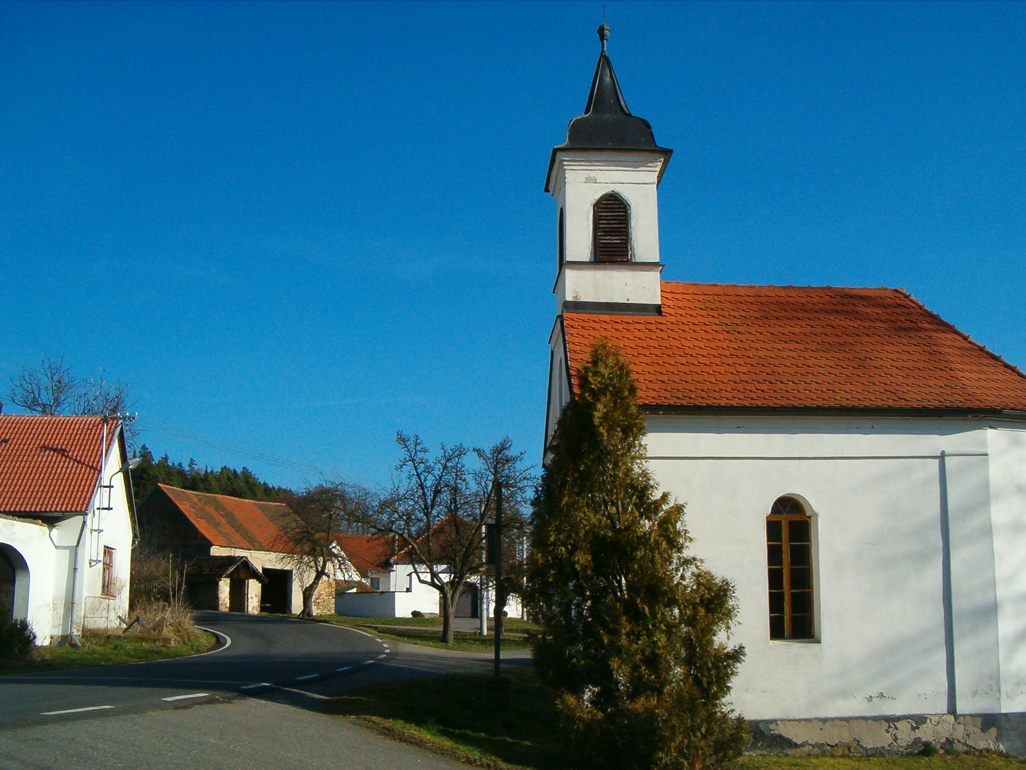 Koječín village, Čepřovice municipality, Strakonice District, South Bohemian Region, the Czech Republic.